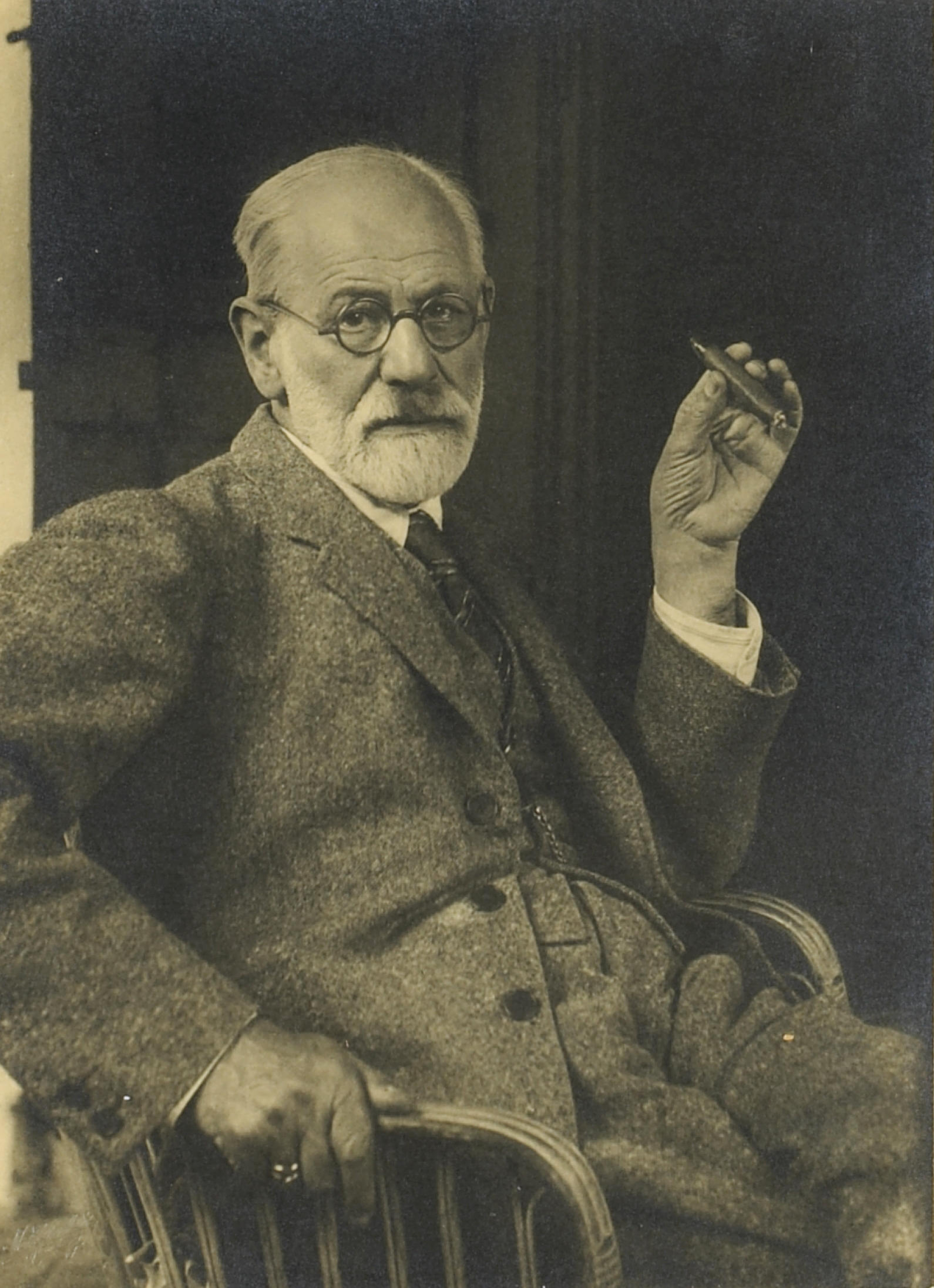 Silver gelatin print, 9 x 6½ inches, tipped to mount, photographer's blindstamp in lower left corner, being a portrait of a seated Sigmund Freud